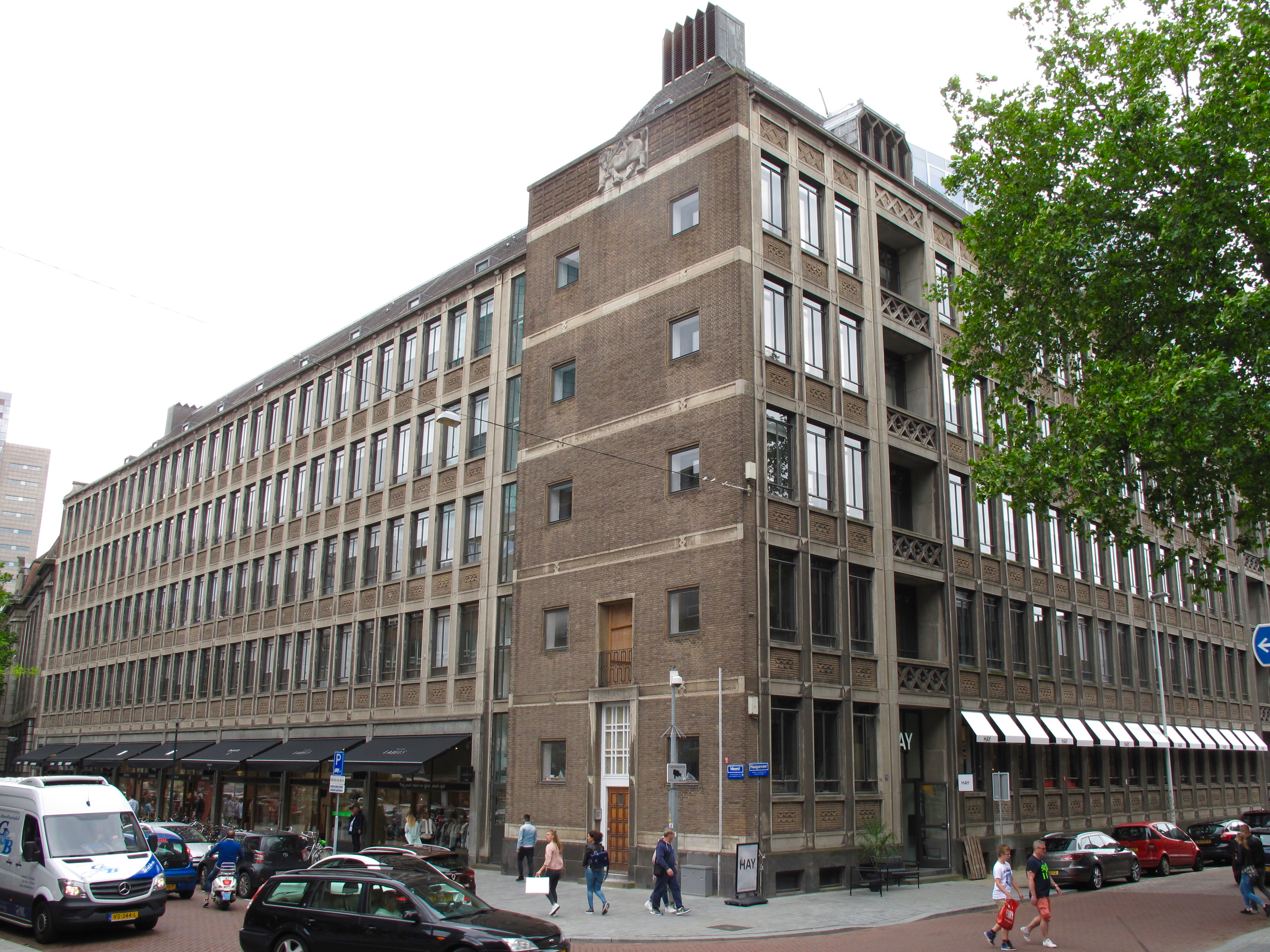 Timmerhuis in Rotterdam, Meent side (old building / Scheepstimmerhuis)